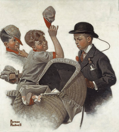 Norman Rockwell's first Saturday Evening Post cover, published on May 20, 1916.